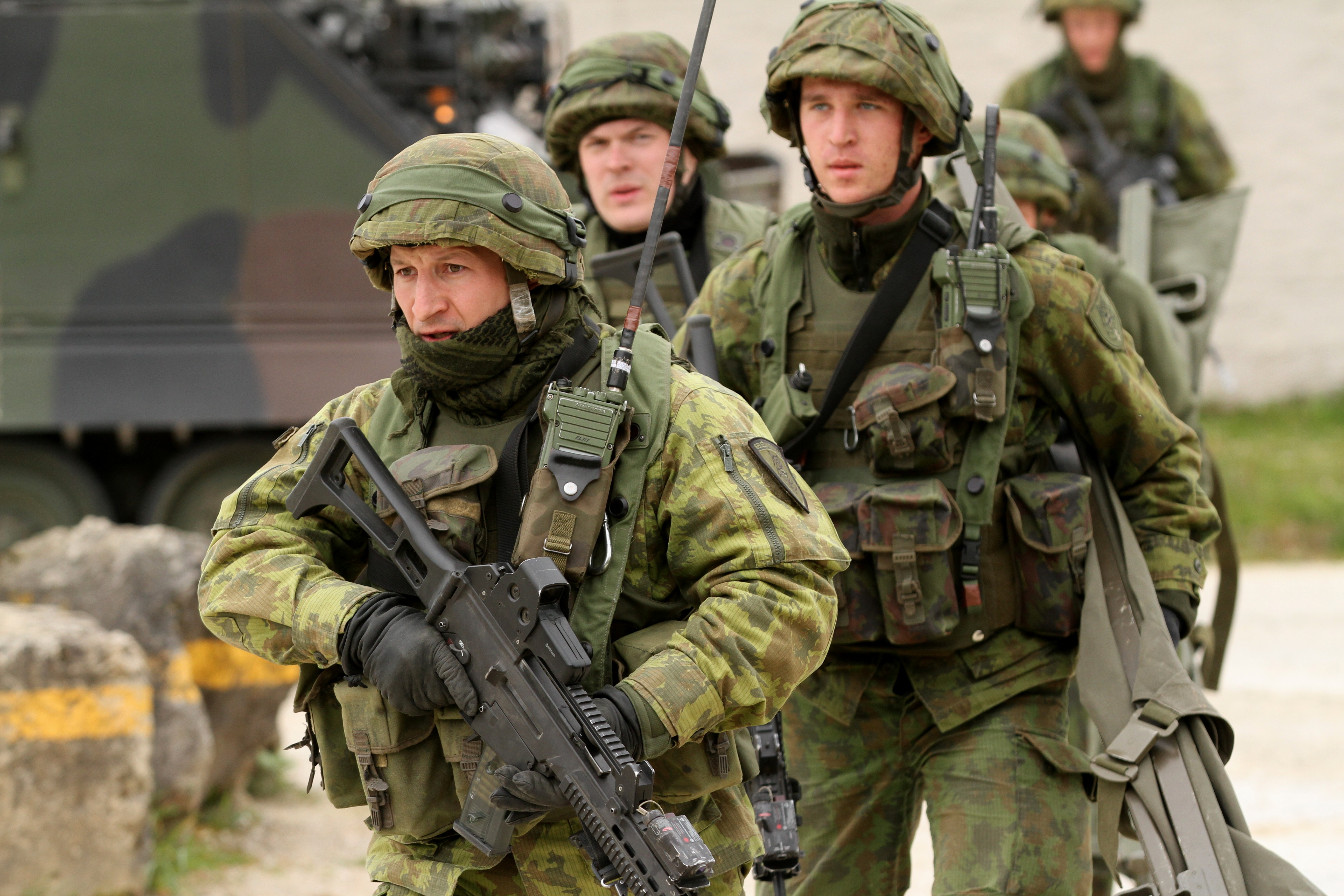 Lithuanian soldiers at Combined Resolve II